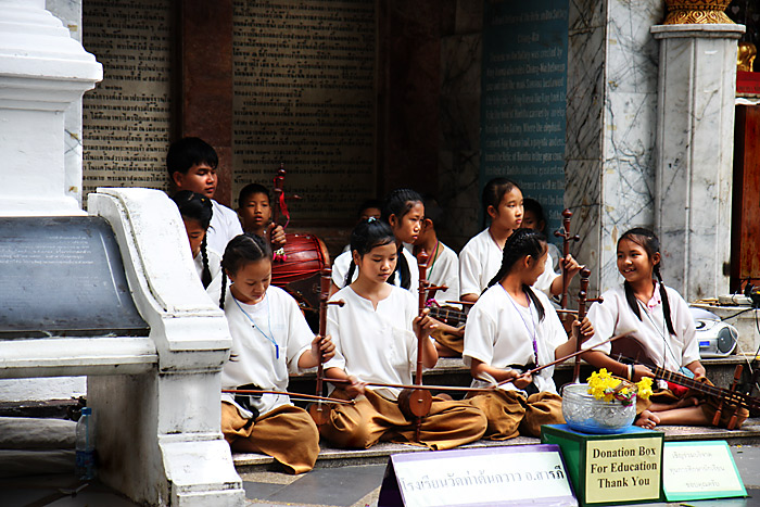 Thailand,2008